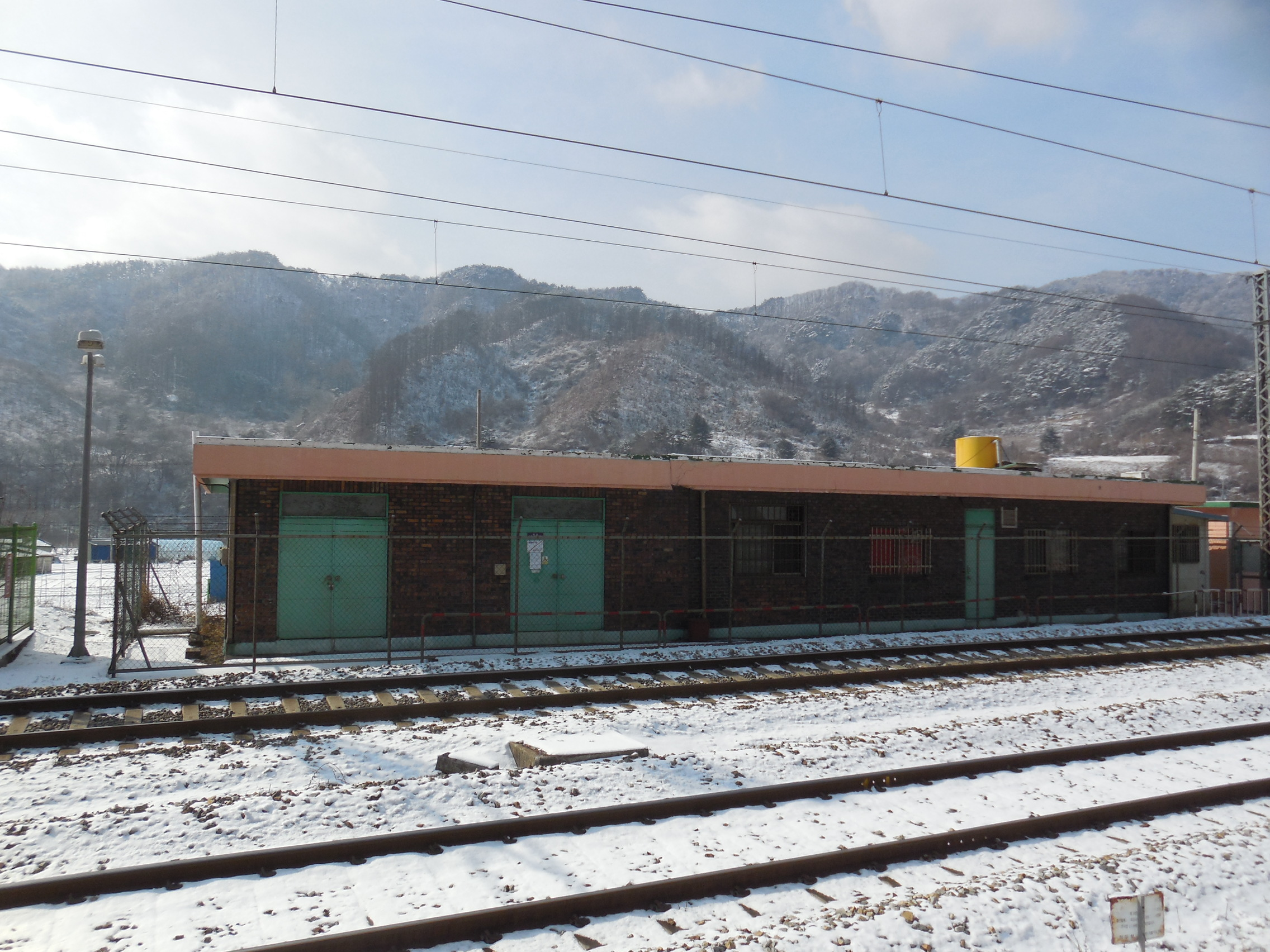 Korail Jungang Line Yeongyo Station.